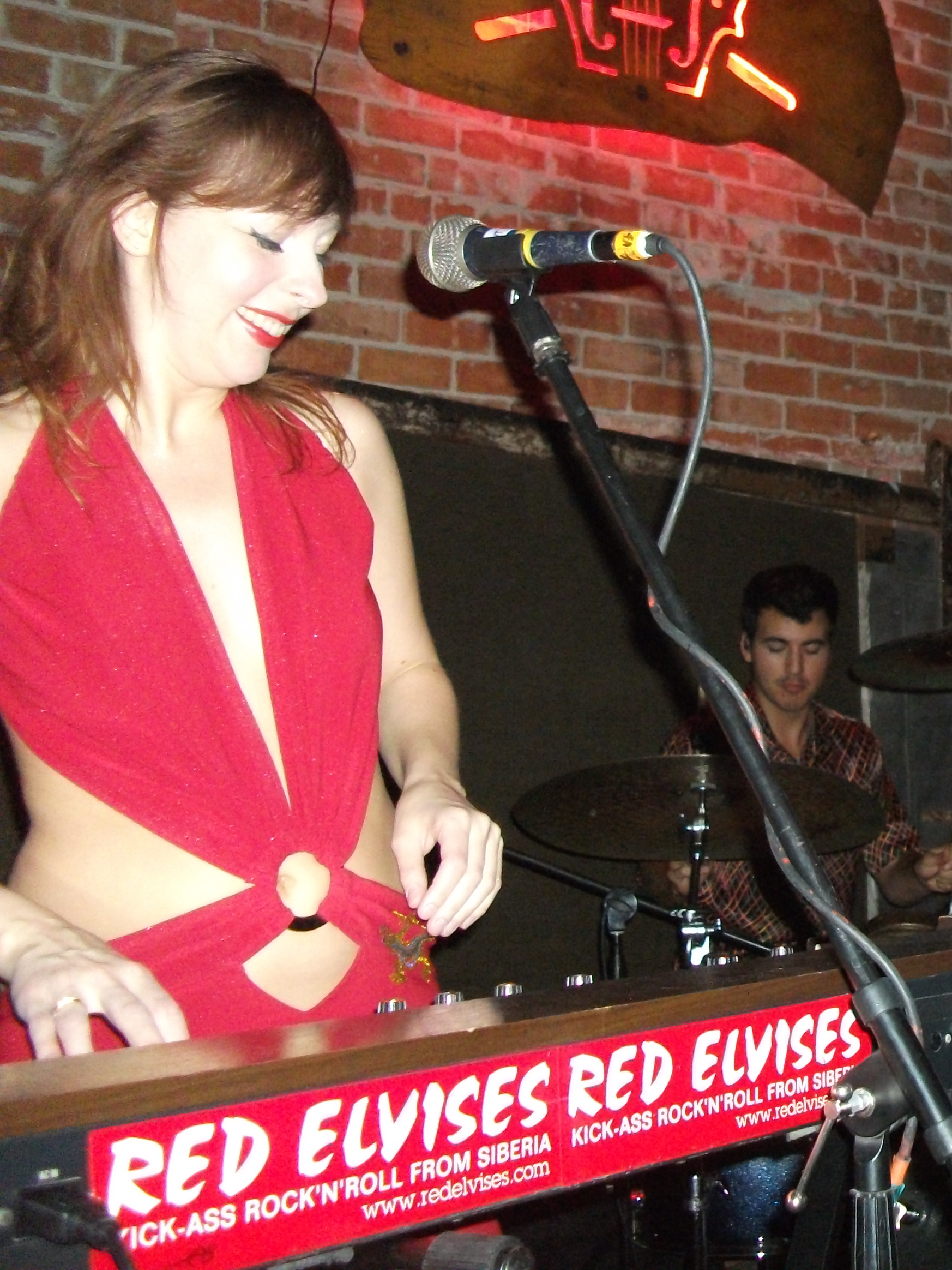 Elena Shemankova. Red Elvises performing at The Hut in Tucson, Arizona on May 19, 2010.